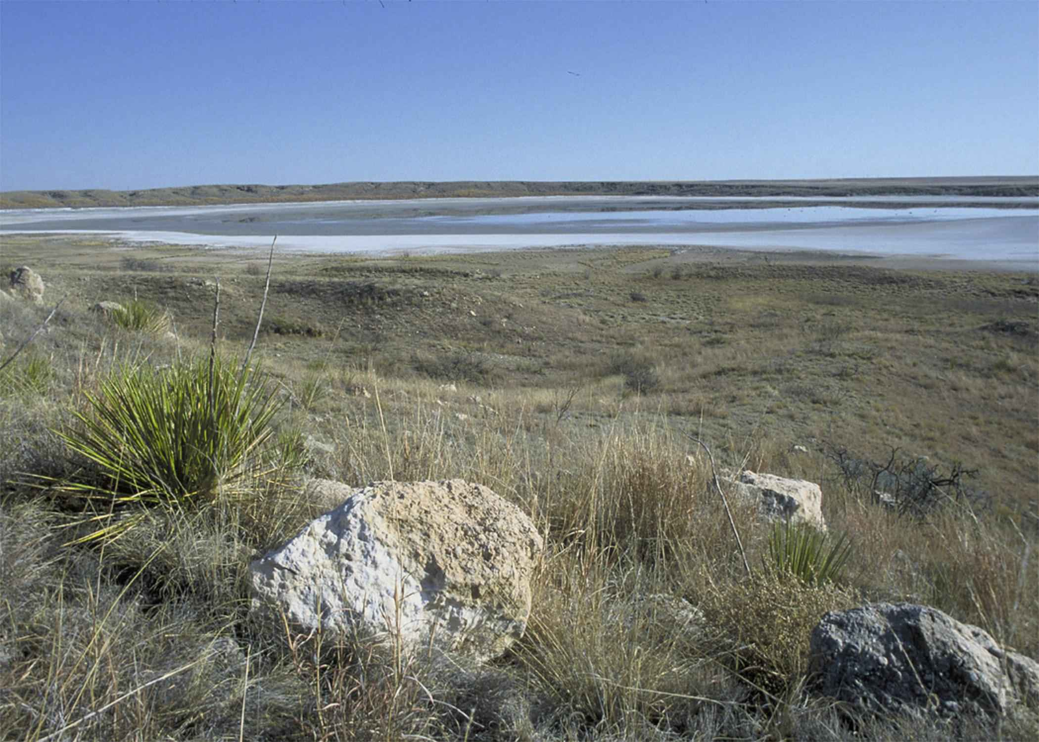 Image title: Muleshoe national wildlife refuge Image from Public domain images website